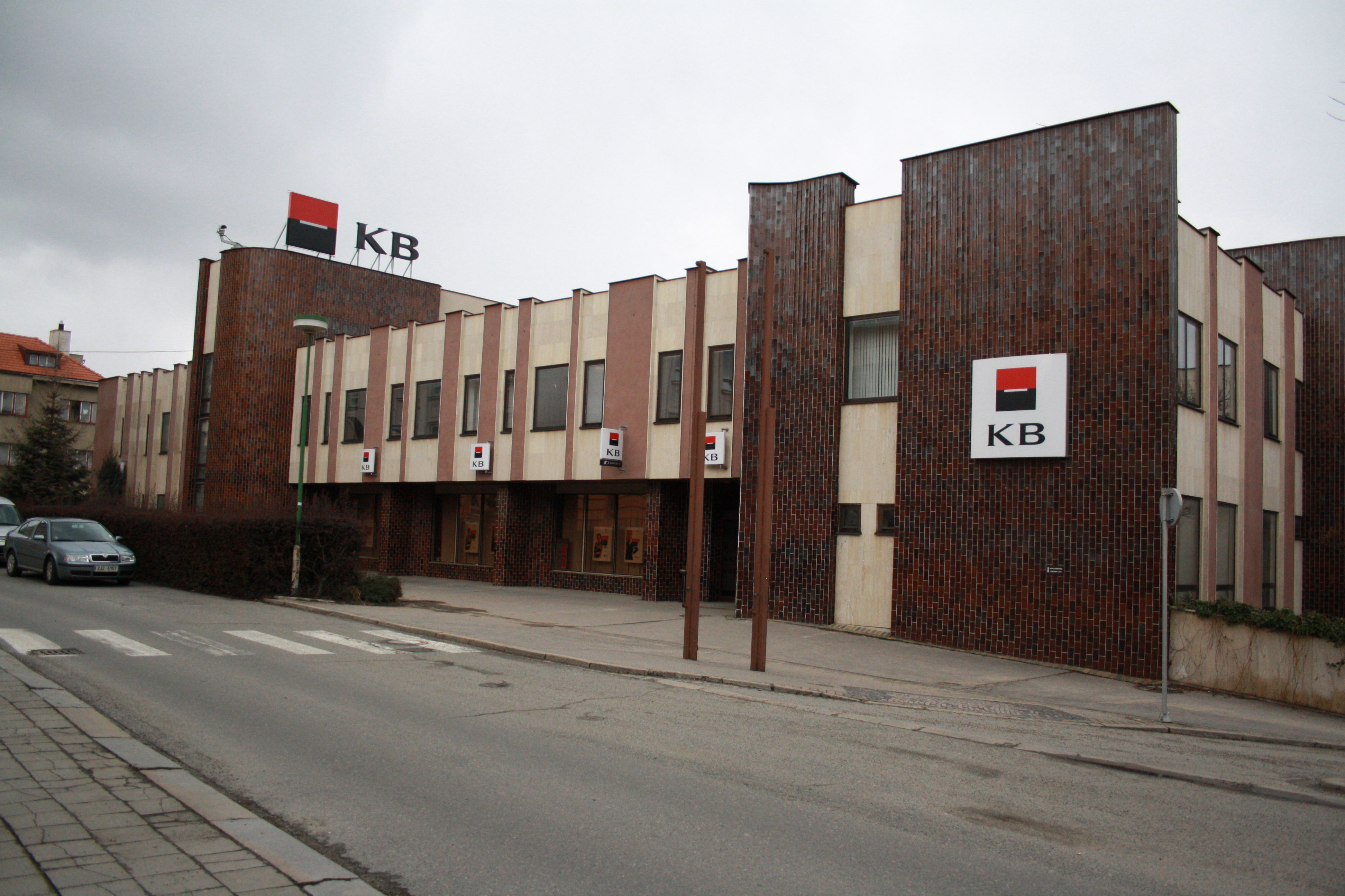 Komerční banka in Třebíč, Czech Republic.